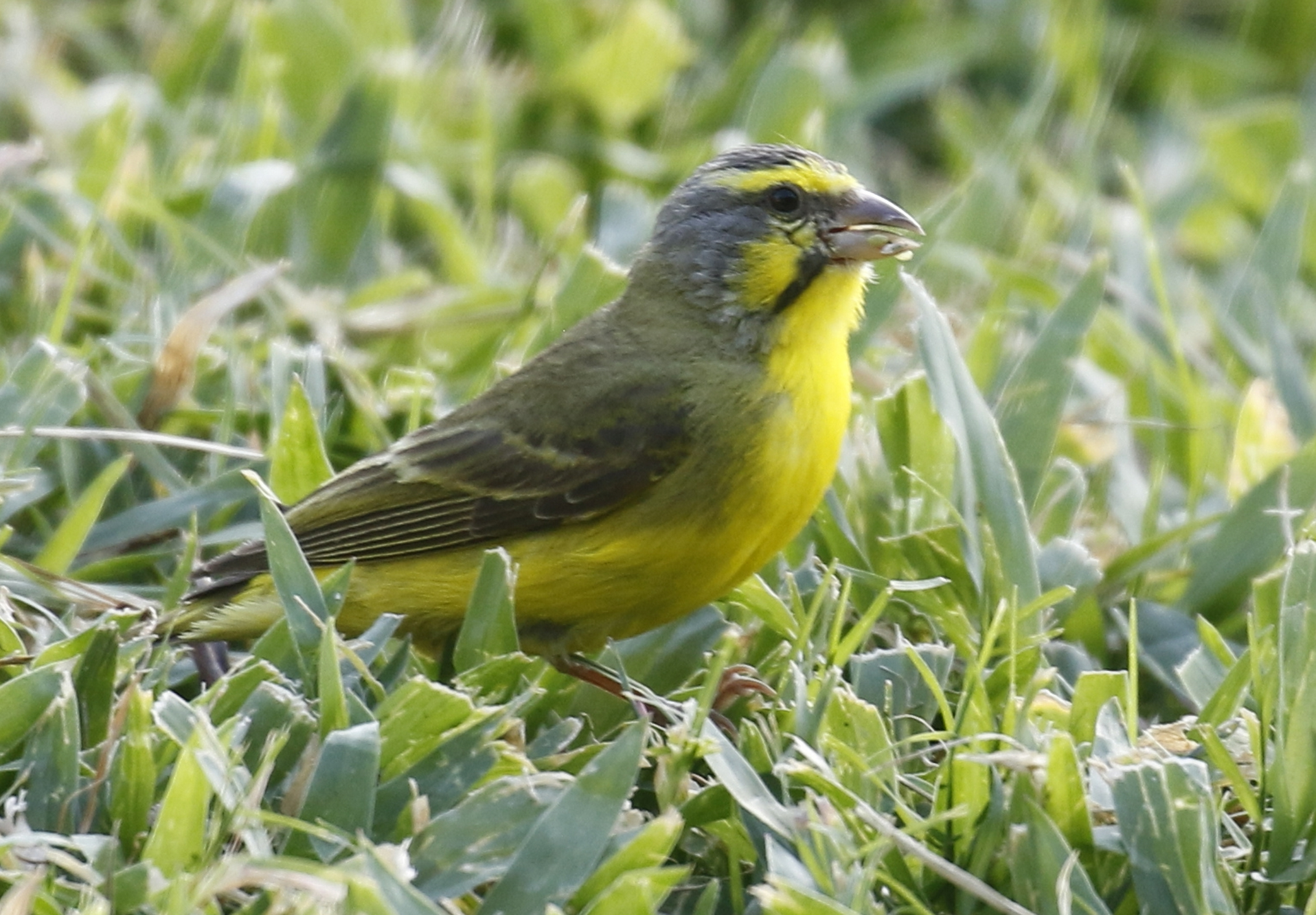 Kapiolani Park - Hawaii